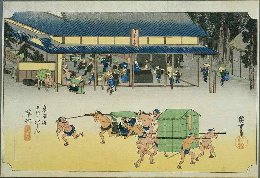 Kusatsu on the Tokaido, ukiyo-e prints by Hiroshige